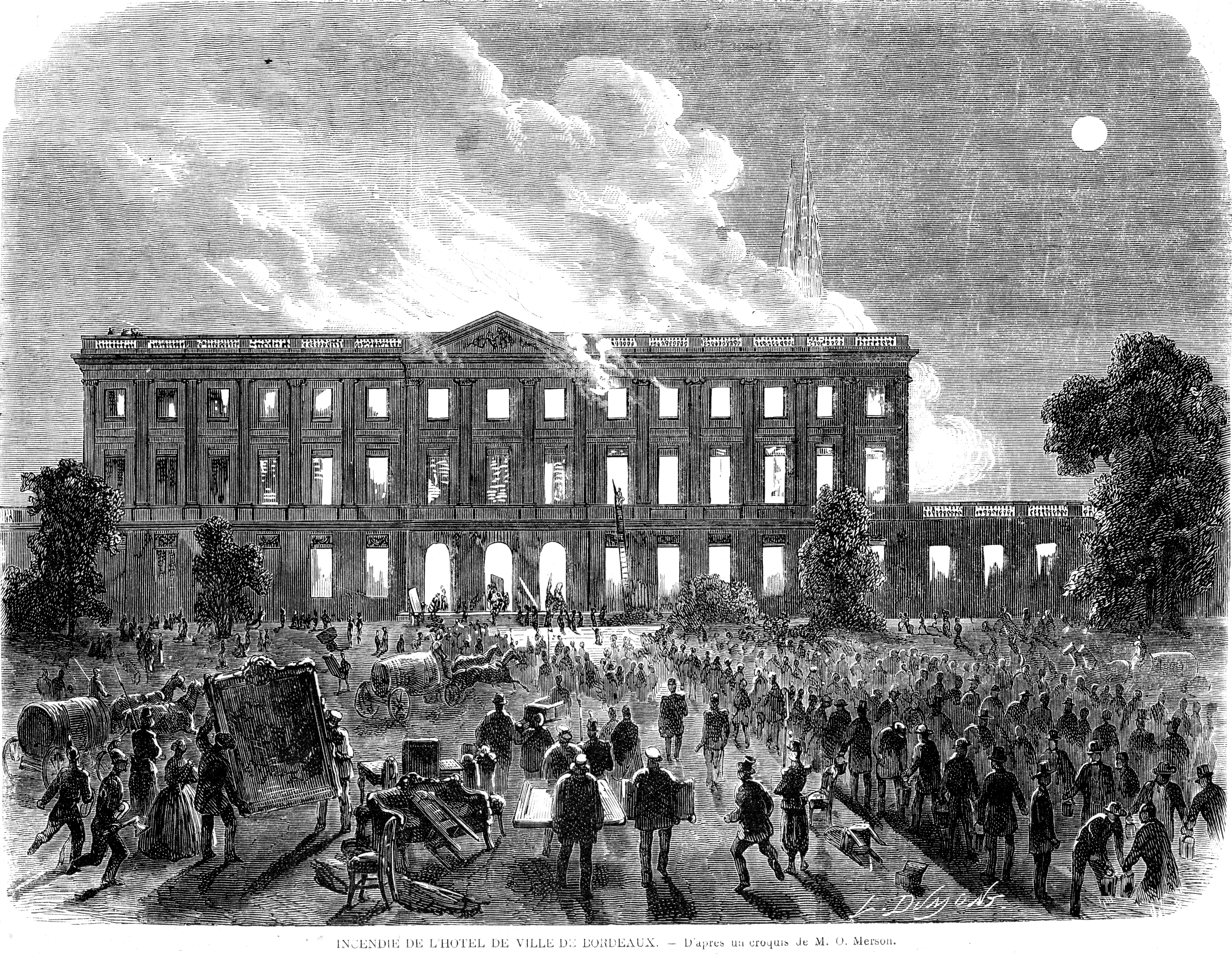 L'Illustration 1862 Incendie de l'hôtel de ville de Bordeaux, le 13 juin 1862